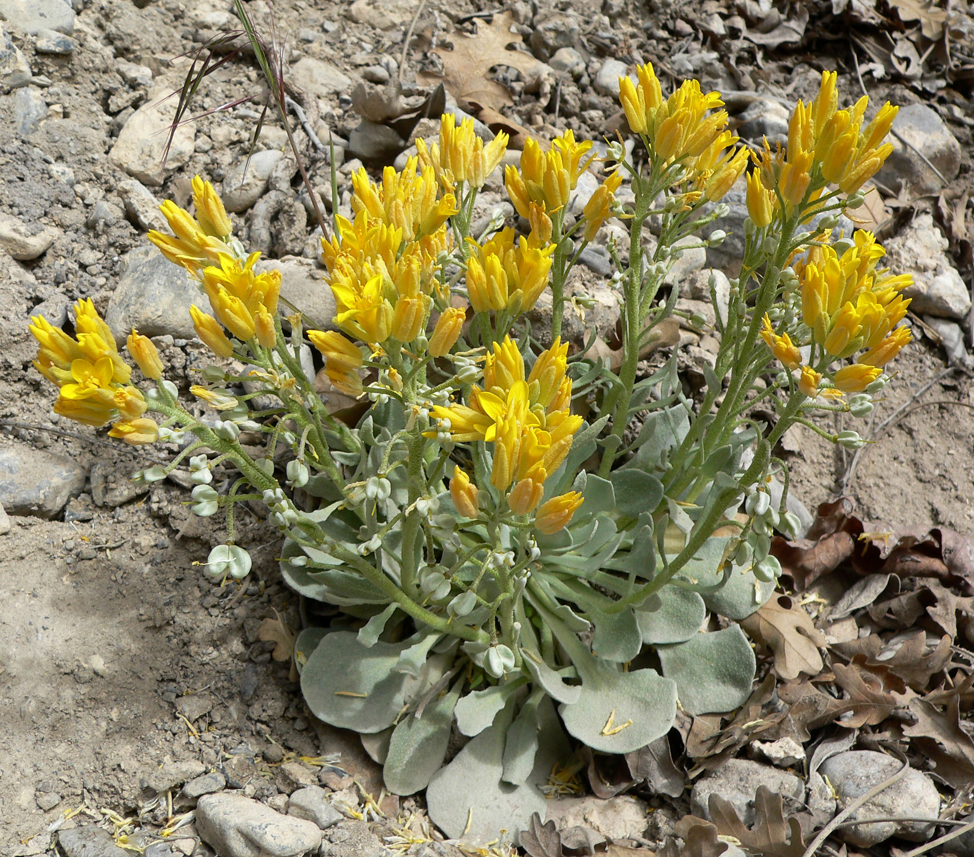 Physaria chambersii on a road cut in upper Kyle Canyon, Spring Mountains, southern Nevada (elev. about 2200 m)